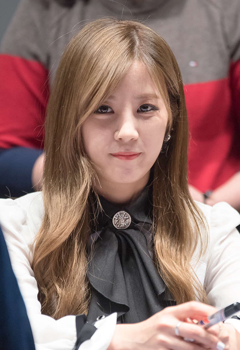 Park Chorong at a fansigning event in Gwangju, 10 December 2014